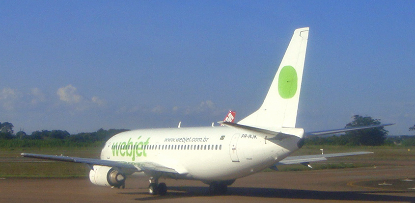 WebJet's Boeing 737 taking off at Afonso Pena International Airport (CWB), Curitiba, Brazil